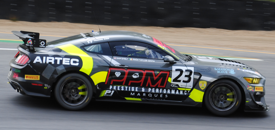 This Mustang was piloted by ex-BTCC drivers Sam Smelt and Aron Taylor-Smith at Brands Hatch.